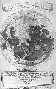 Rheitalunarmap4